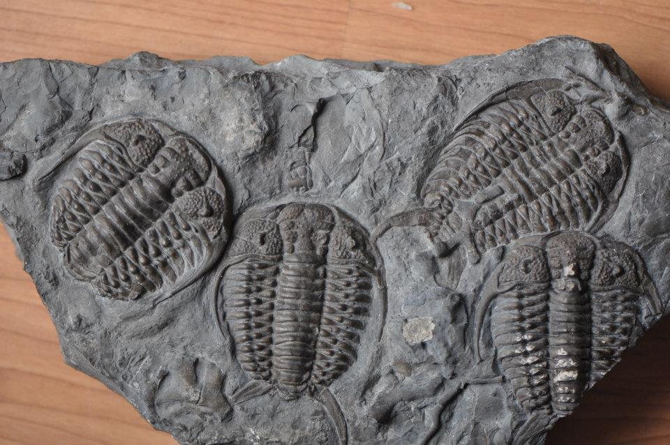 Gabriceraurus multiple (dorsal view) Belleville, Ontario. Specimen at center is about 4.5""